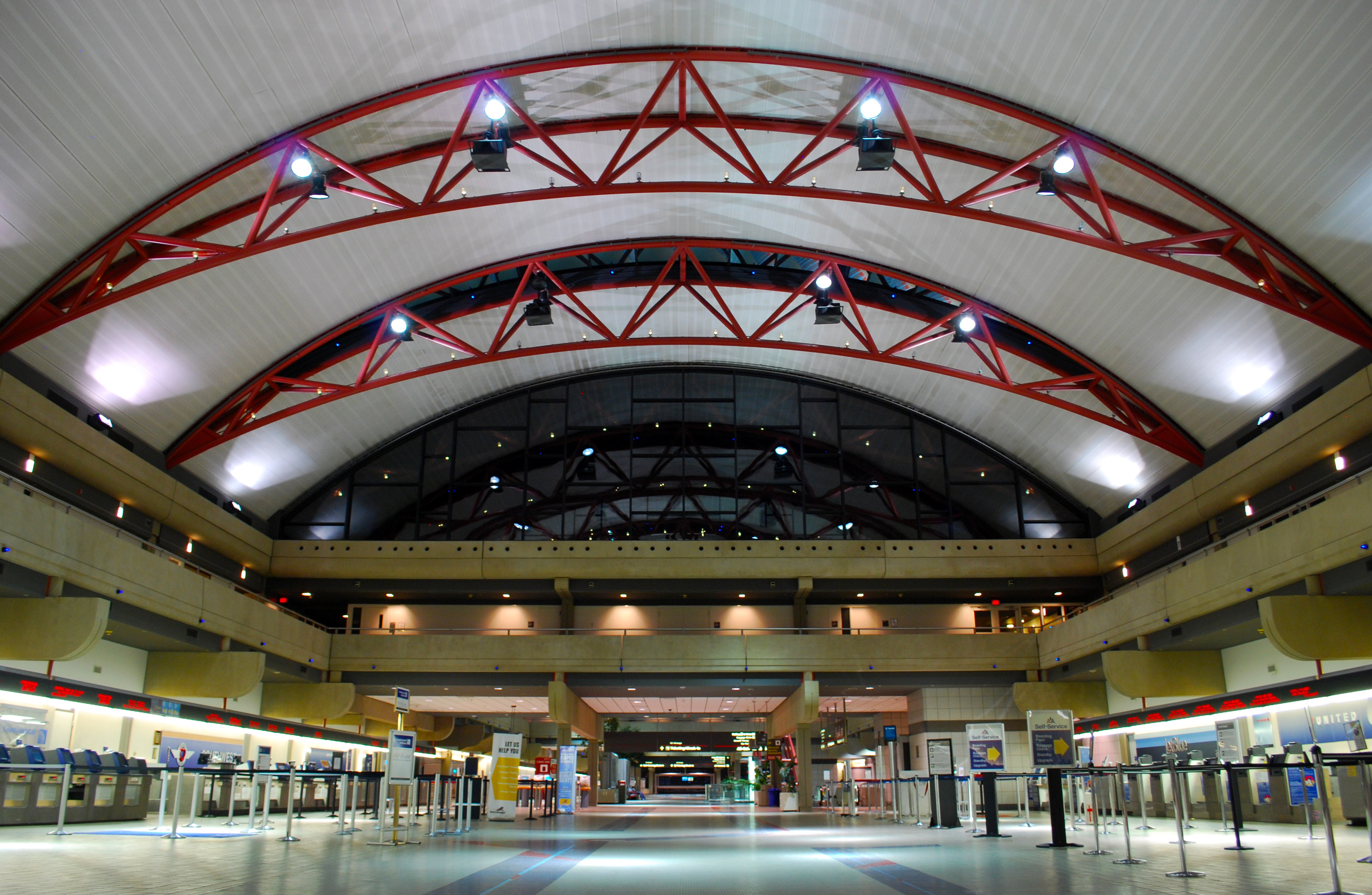 A view of the Landside Terminal of the Pittsburgh International Airport in July 2011.